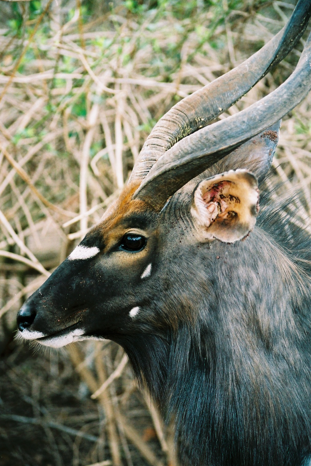 Tragelaphus angasii — Nyala — South Africa — October 2003